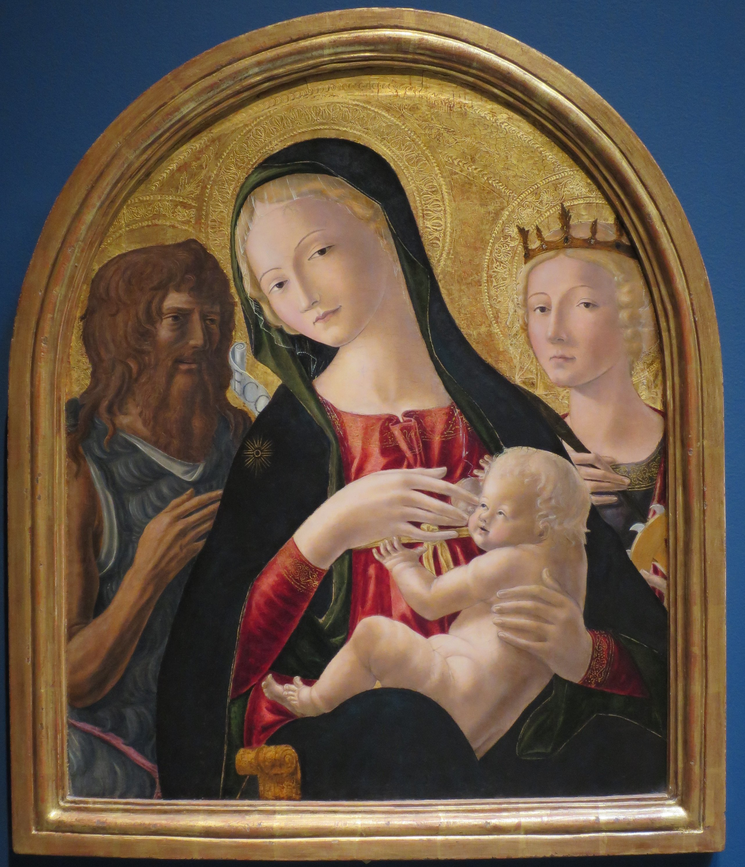 Madonna and Child with Saint John the Baptist and Saint Catherine, Norton Simon Museum